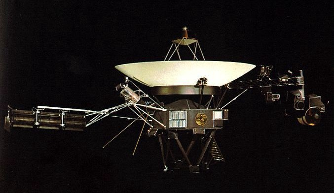 Image of Voyager without the magnetometer boom deployed.